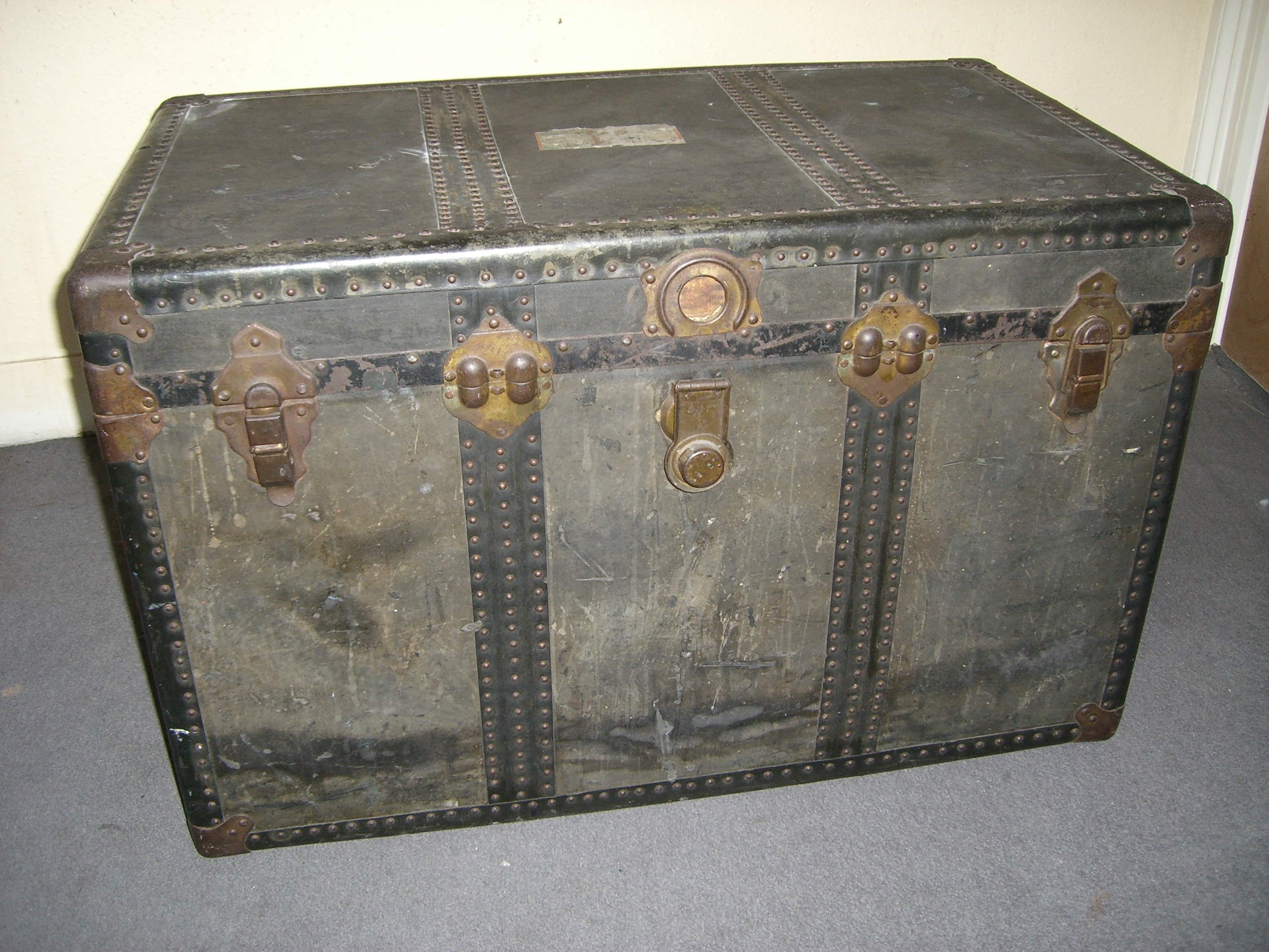 A tatty trunk I found in my flatshare. Photo taken 1 April 2006 by User:Edward with a Casio EX-S600.